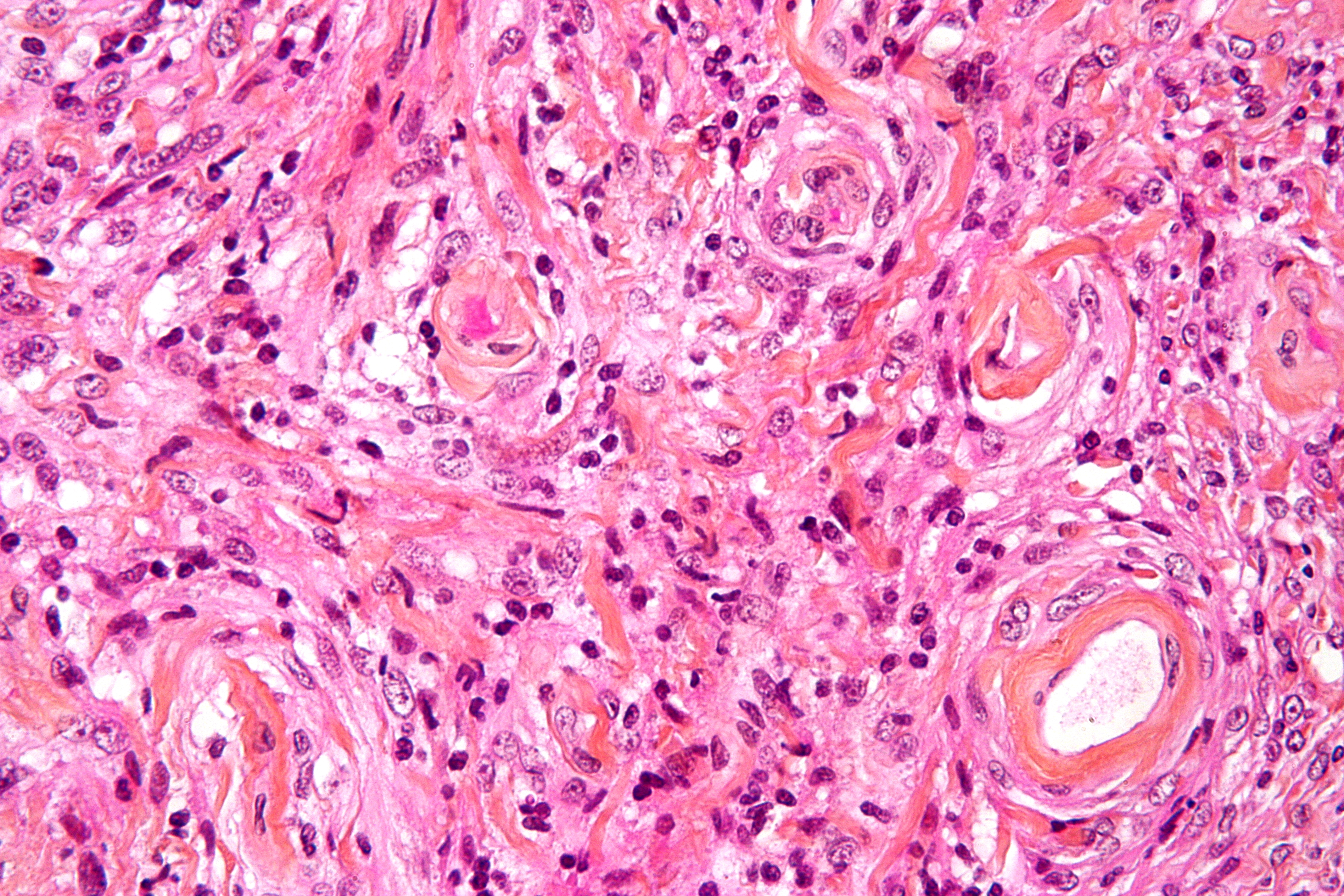 High magnification micrograph of a meningioma. HPS stain. Features: Calcification (not seen on image). Whorled appearance. Related images Intermed. mag.